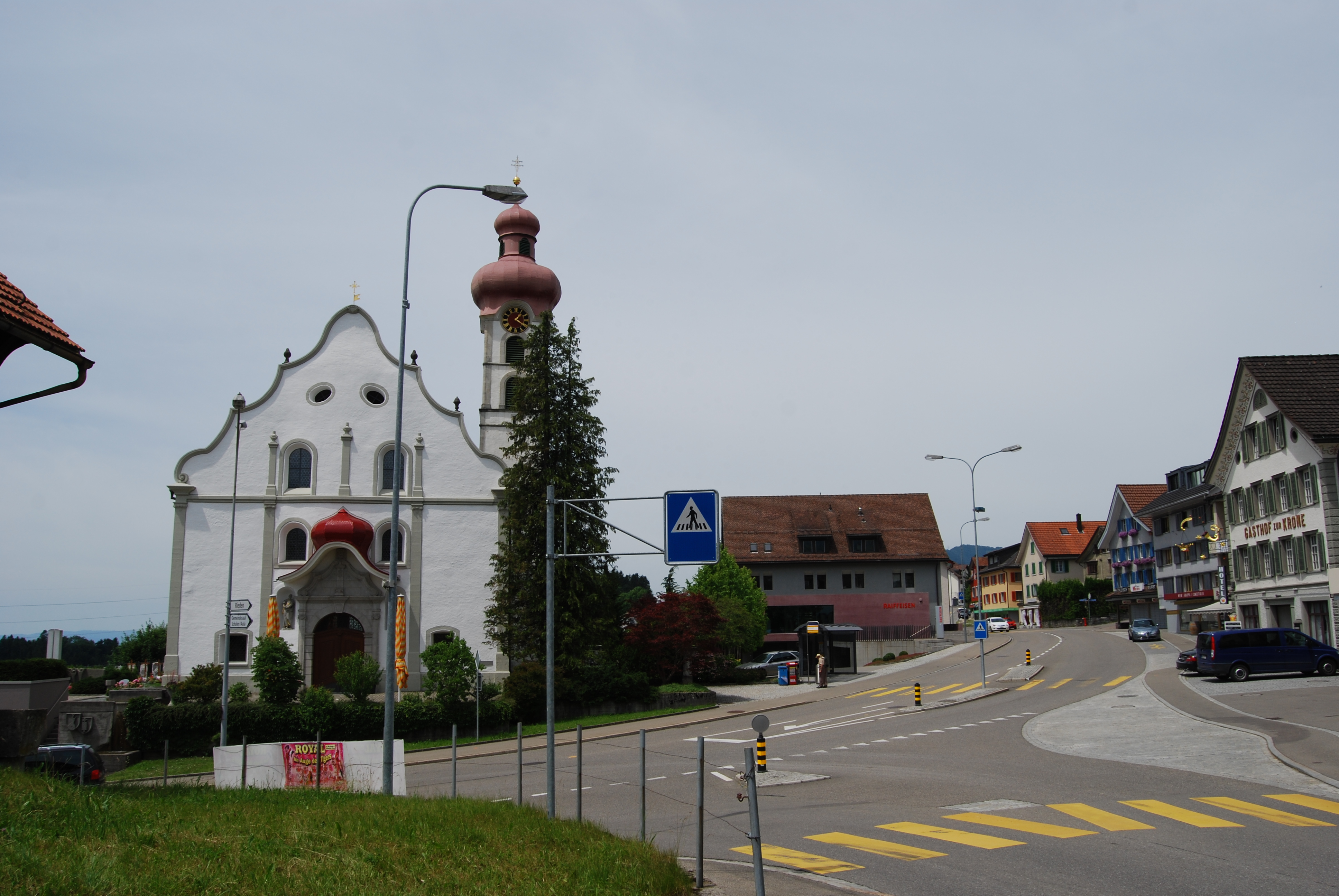 Church of Gommiswald, canton of St. Gallen, Switzerland